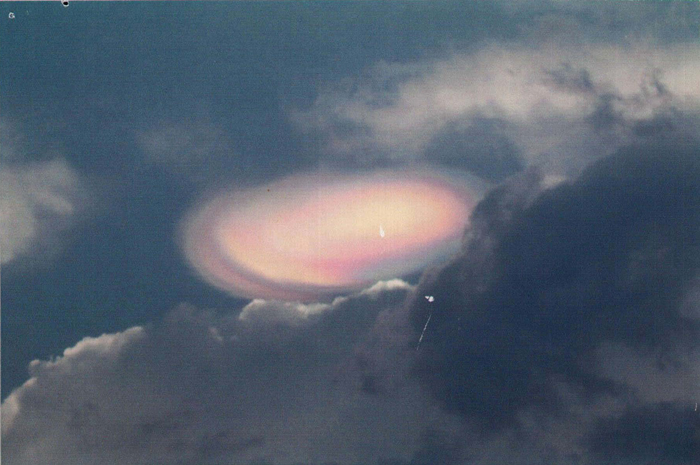 Iridescent Pileus cloud. Original description: Photograph of "an unusual atmospheric atmospheric occurrence observed over Sri Lanka" forwarded to the Ministry of Defence by RAF Fylingdales. Date: 27th March 2004 Our Catalogue Reference: DEFE 24/2036 p.67 This image is from the collections of The National Archives. Feel free to share it within the spirit of the Commons. You can view the latest UFO files transferred from the Ministry of Defence at: .uk/ For high quality reproductions of any item from our collection please contact our image library.